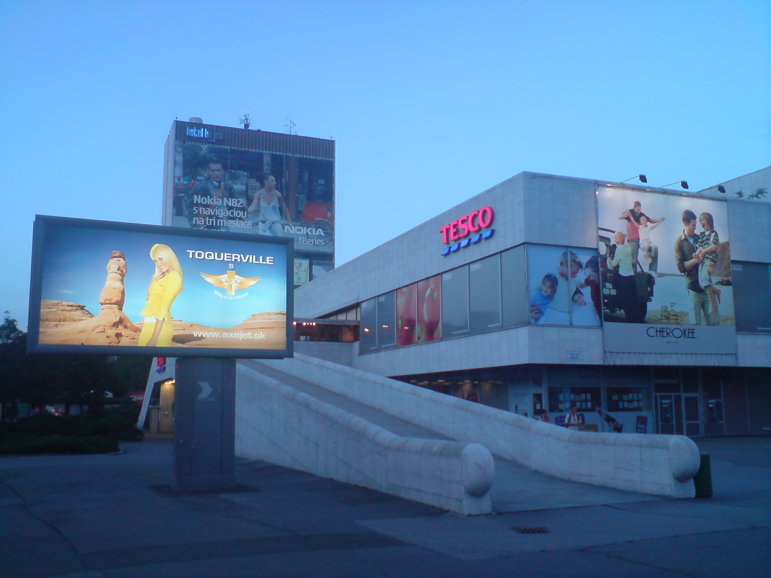 Tesco shopping mall at Kamenné námestie, Bratislava, Slovakia